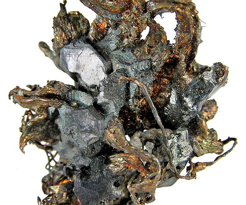 Acanthite, Silver Locality: Kongsberg, Buskerud, Norway (Locality at ) Size: miniature, 4 x 2.6 x 1.9 cm Silver with Acanthite crystals This elegant miniature features traditional Kongsberg ropey silver perched on and around a stepped cluster of superb, lustrous acanthite crystals! Acanthite of such quality is EXTREMELY rare for the locale, and especially uncommon in association with beautiful rope silver. This piece comes out of an old collection, from Australia. It is one of the most elegant and attractive miniatures I have ever been able to offer from the locale, for under $5000 or so. Plus, the acanthite is a nifty bonus.